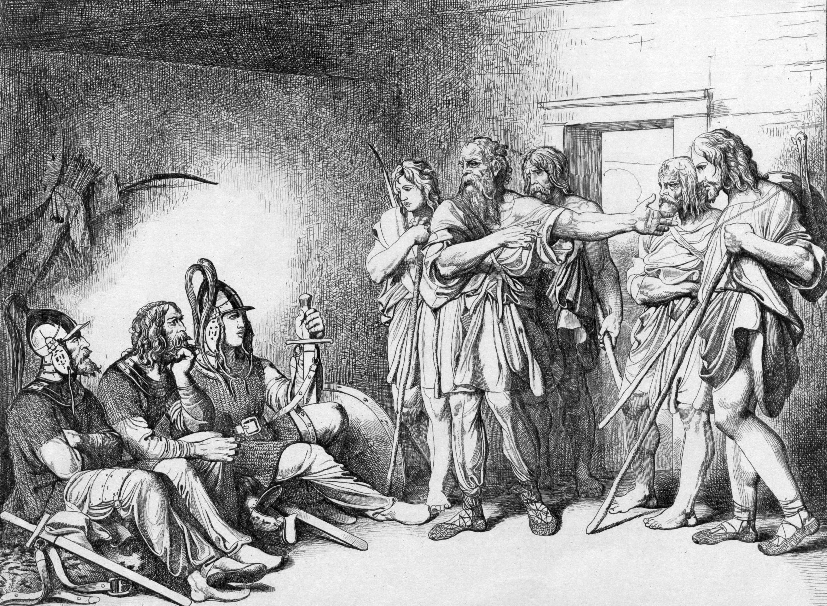 Varangians